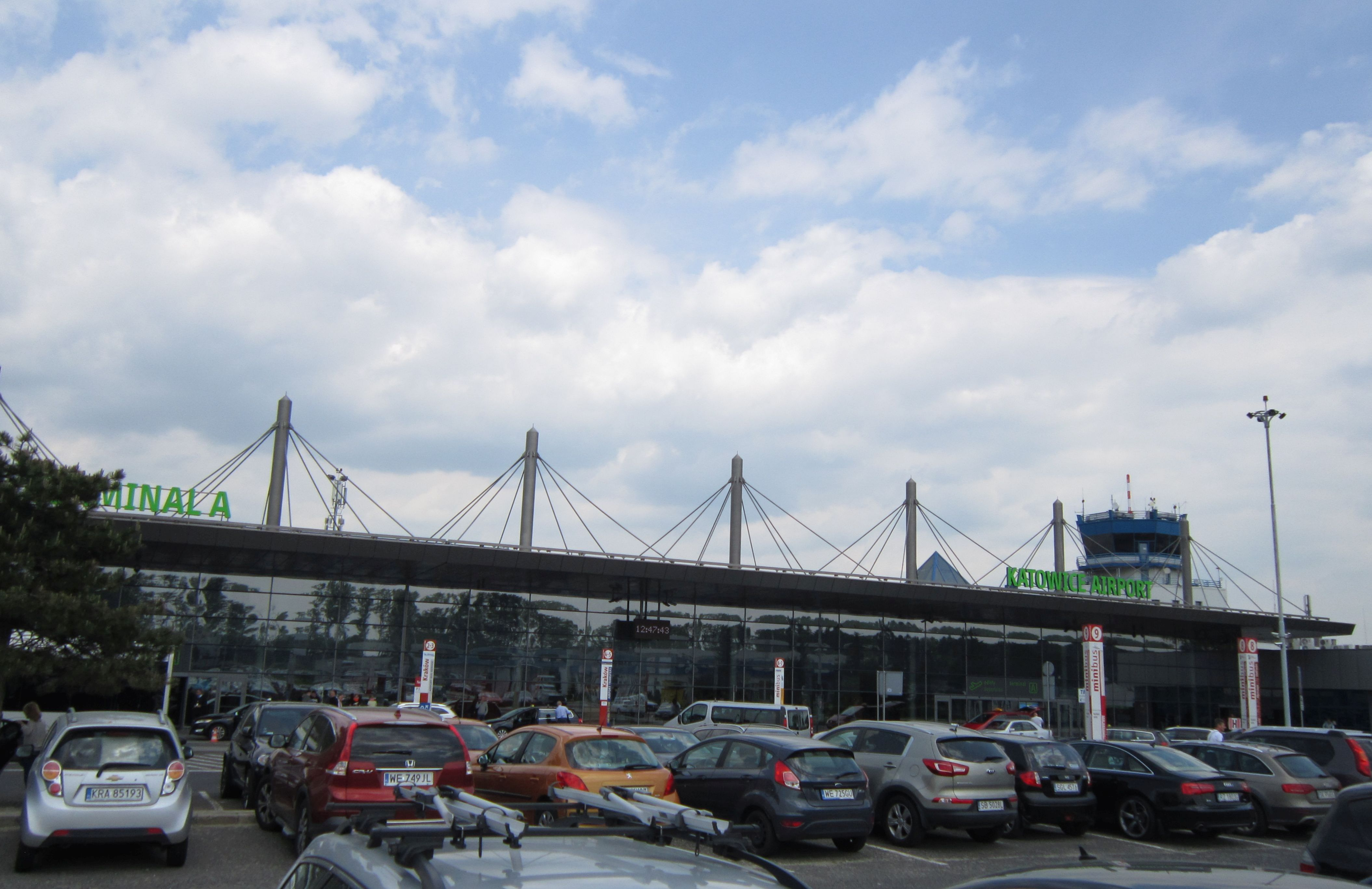 Katowice International Airport, Terminal A